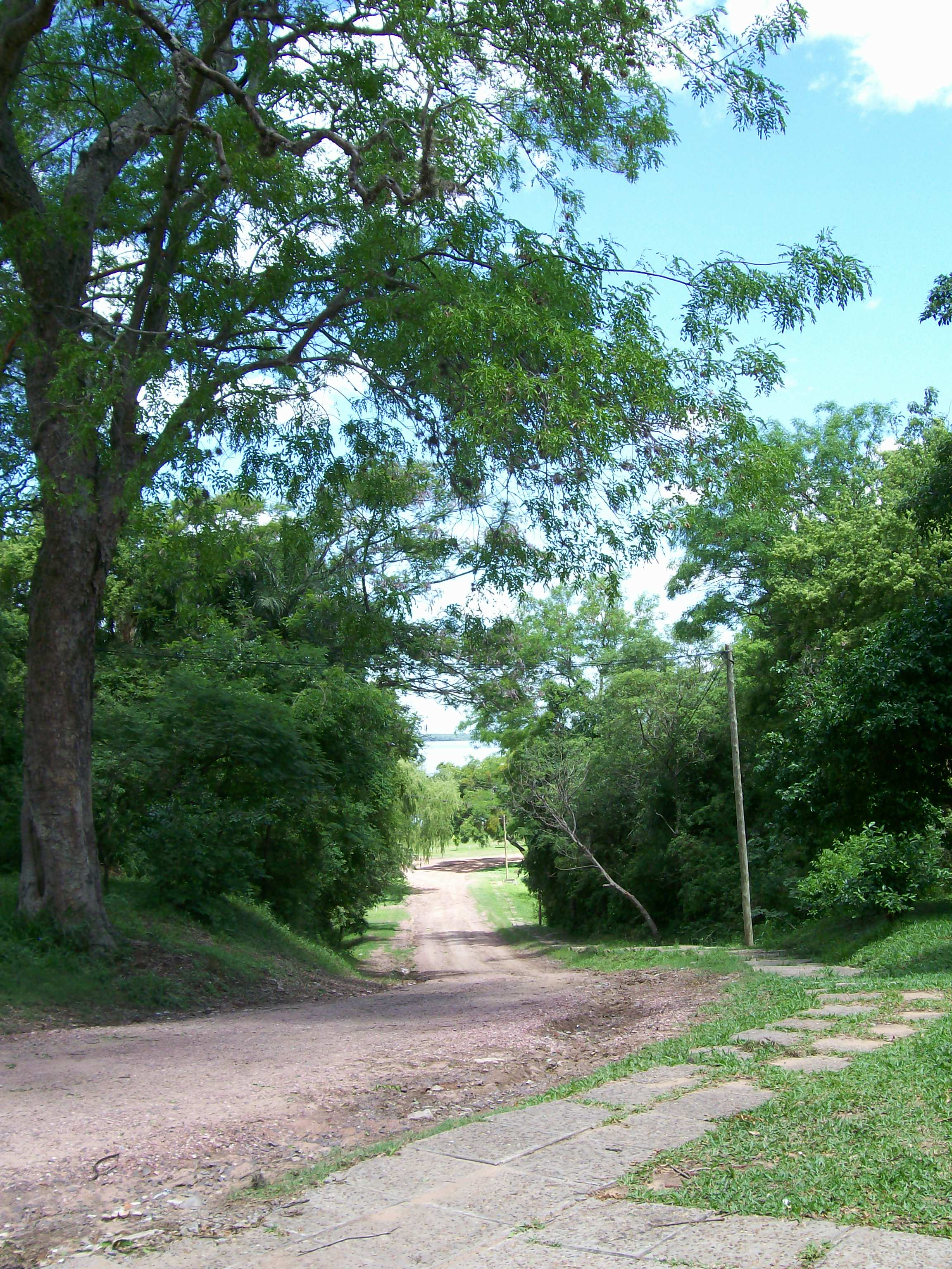 Main access to Isla del Cerrito town, in Chaco Province, Argentina. You can appreciate the low and high part of the island.